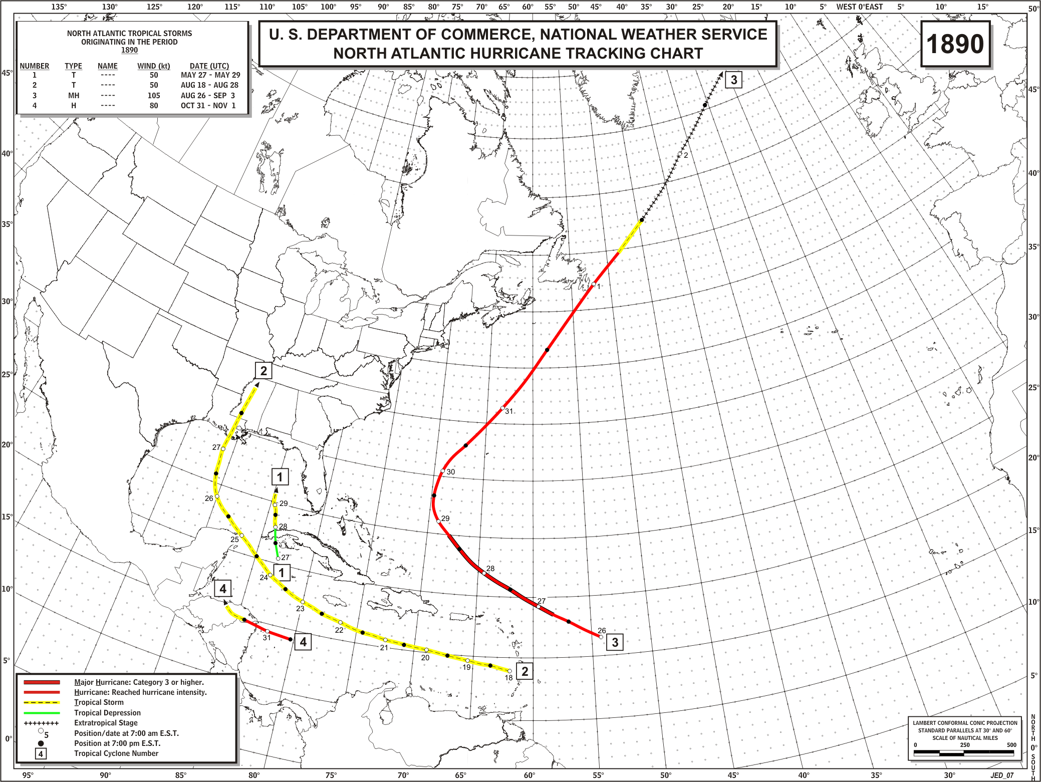 1890 Atlantic hurricane season map Season summary provided by NOAA of the 1890 Atlantic hurricane season.